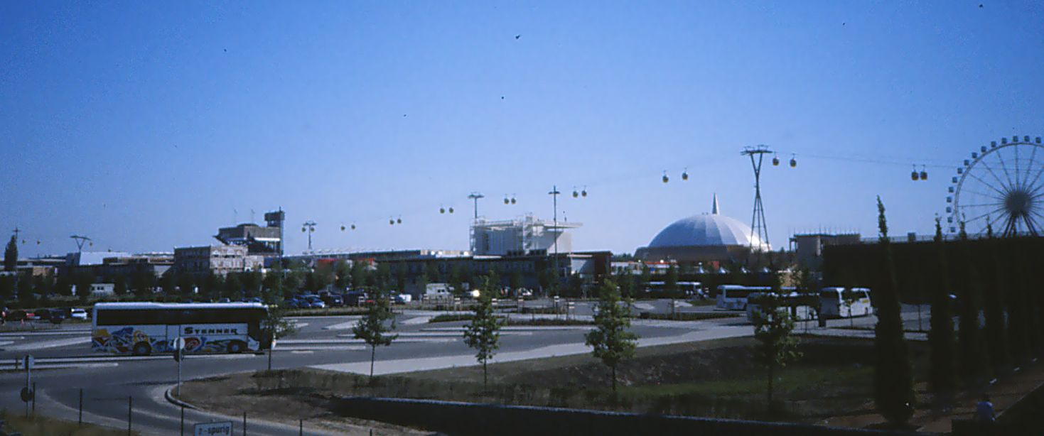 Aerial Tramway, EXPO 2000 in Hannover, Germany. 20 June 2000.